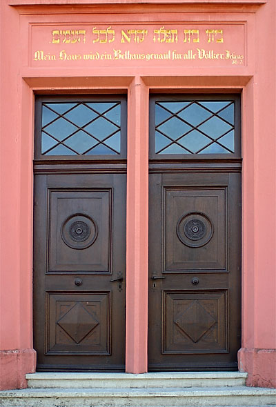 Doors to the synagogue in Lengnau, Aargau canton, Switzerland